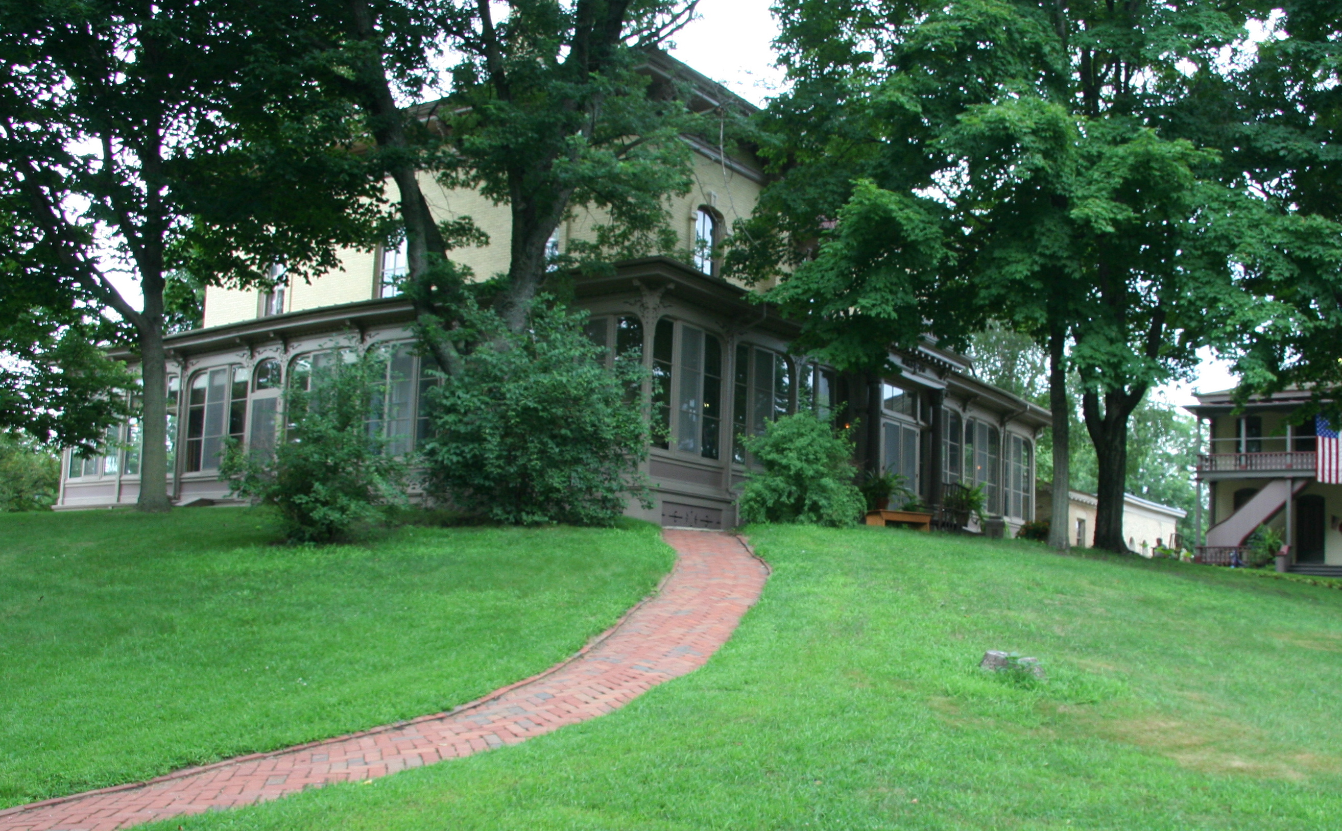 The Villa Louis, also known as Dousman Mansion, and surrounding buildings on Saint Feriole Island in Prairie du Chien, Wisconsin